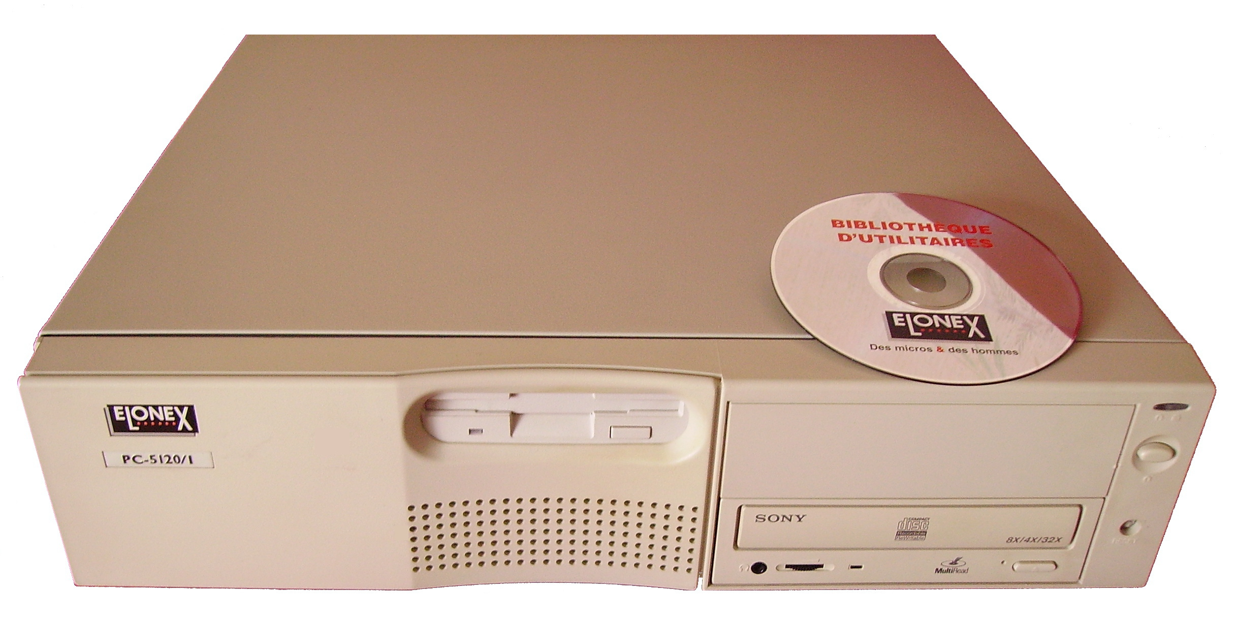 Elonex PC-5120H/I. CPU: Intel Pentium 120 MHz (Pentium 200 MHz optional). RAM EDO: 8 MB (128 MB optional). Integrated ATI graphics processor: 1 MB (4 MB optional). Year: 1996.